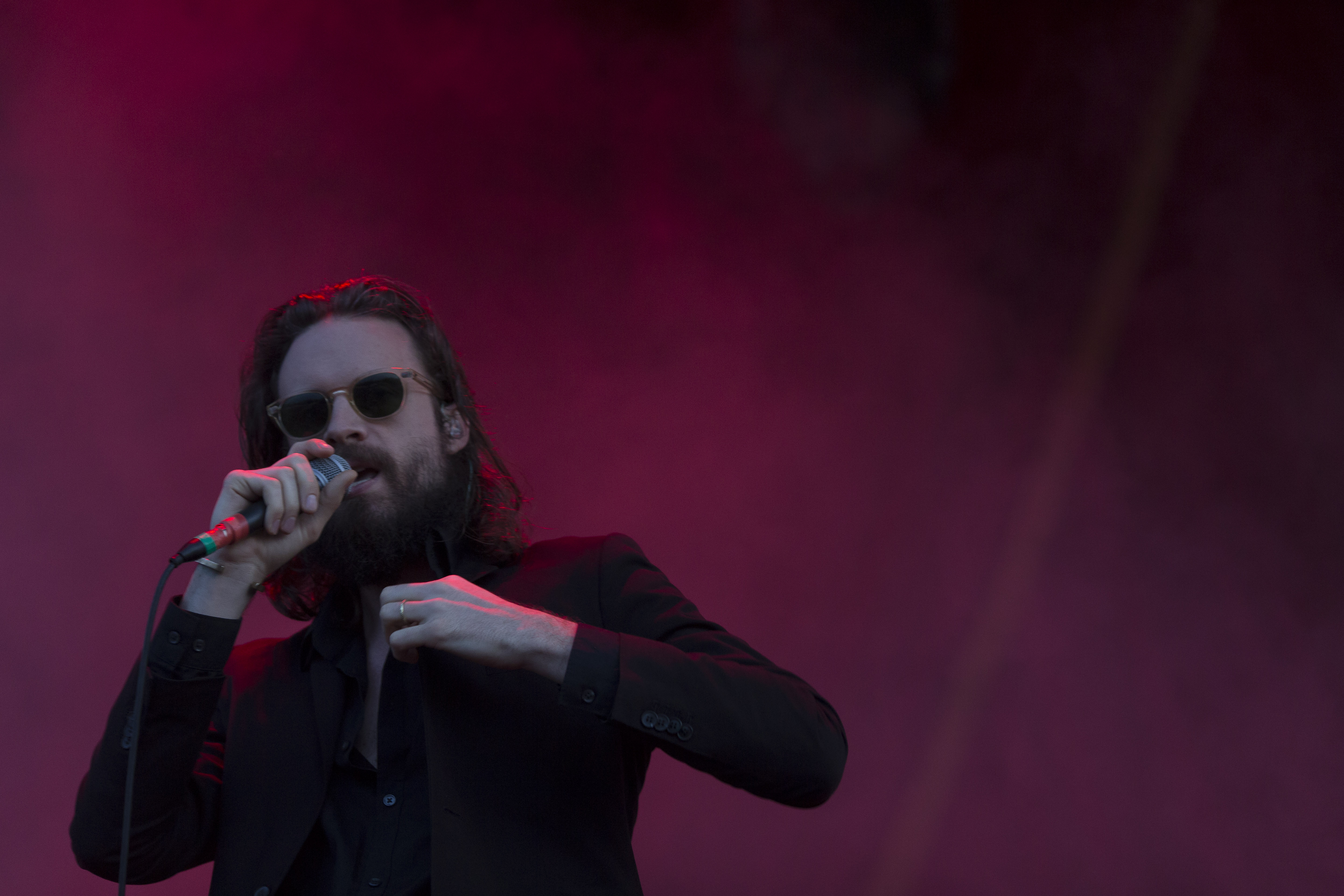 Joshua Tillman performing as Father John Misty at Fairgrounds Festival in Berry, New South Wales, Australia on December 5, 2015